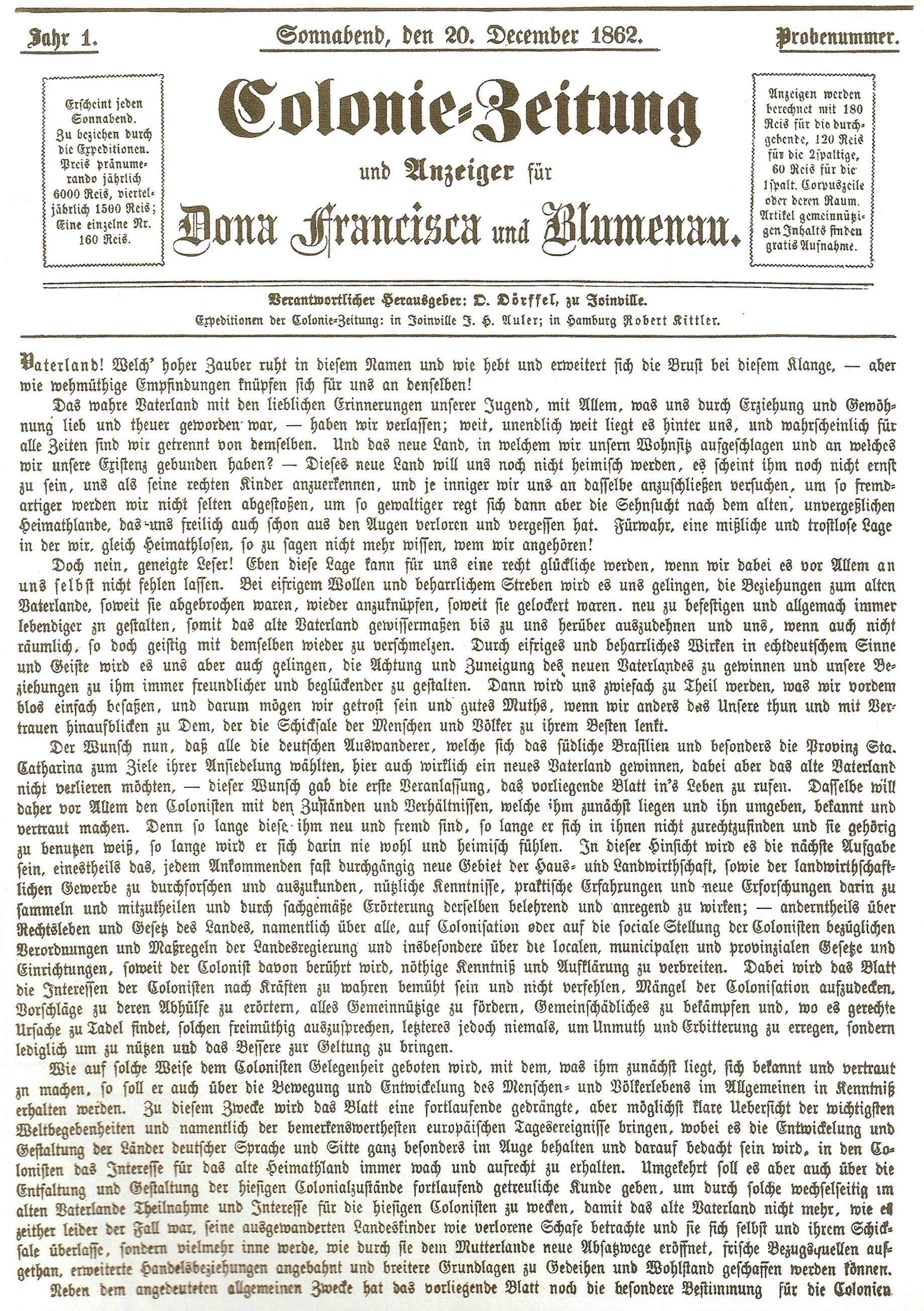 Scanned image of first number of germanic journal Kolonie Zeitung, still with "C"